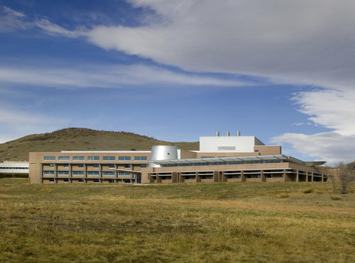 National Renewable Energy Laboratory (Golden, Colorado) - Courtesy of DOE/NREL - Timmerman, Bill